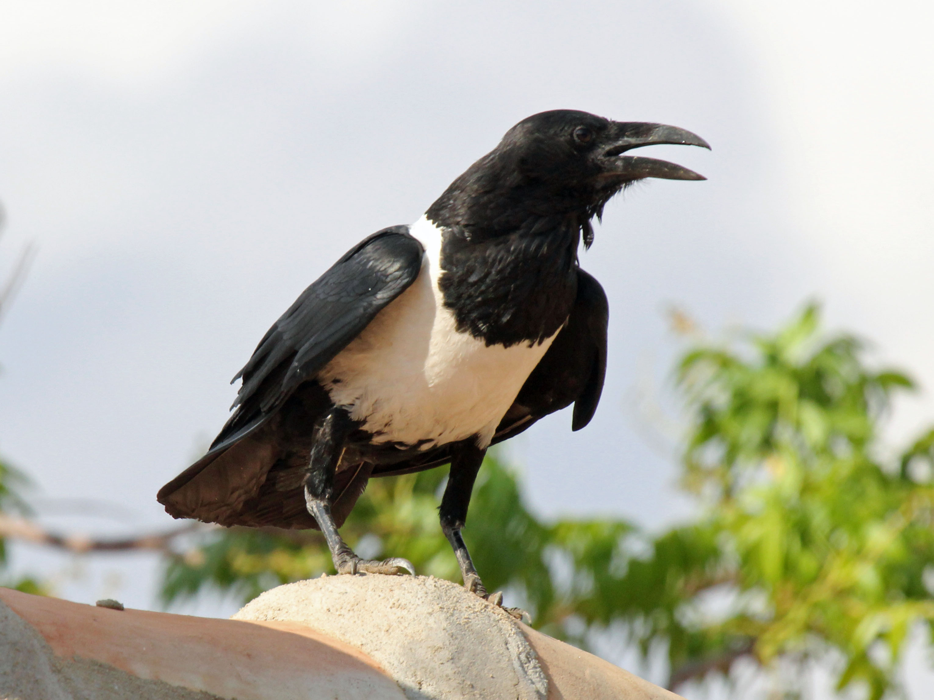 Pied Crow (Corvus albus) - Madagacar